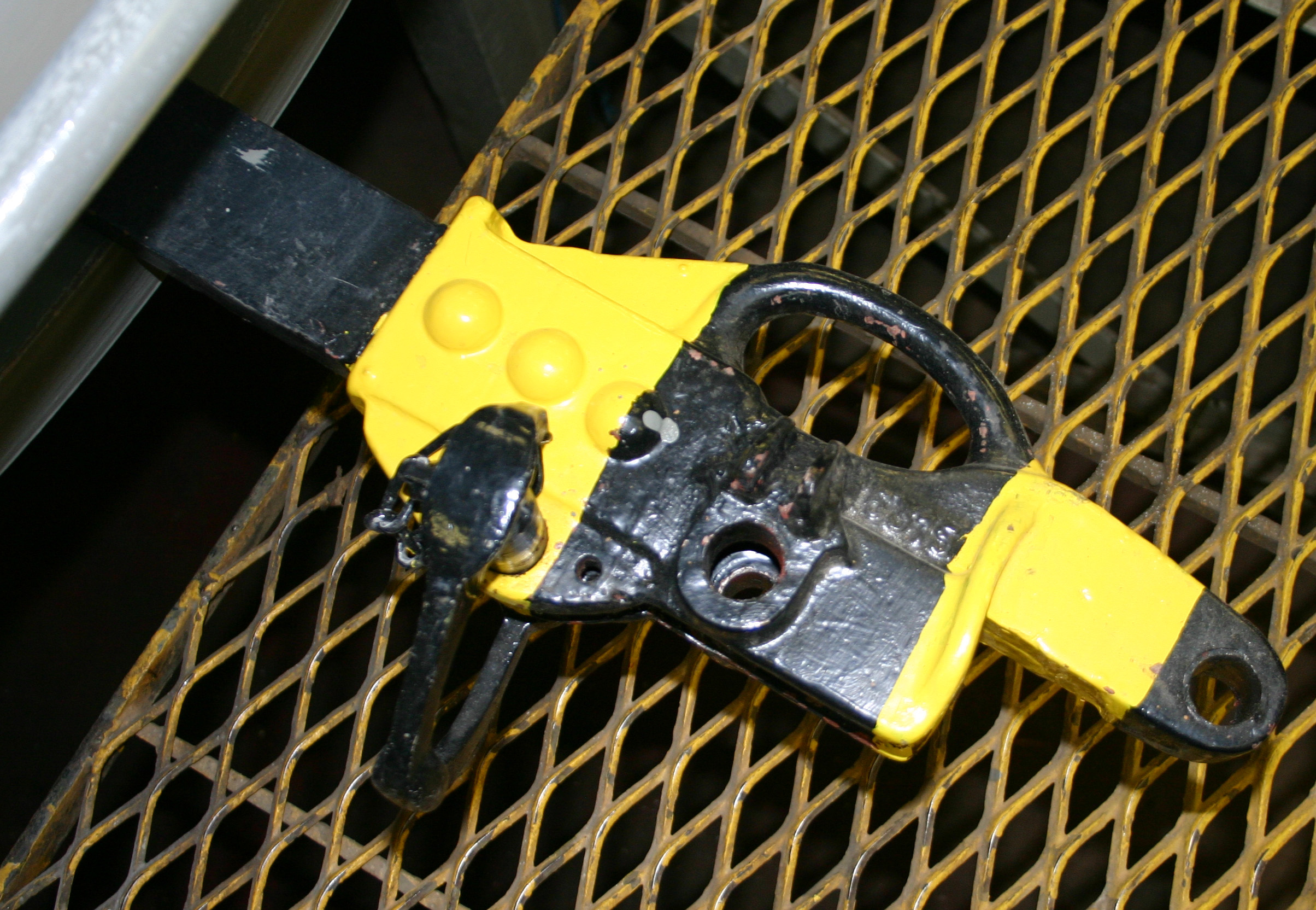 Albert coupel on tram.